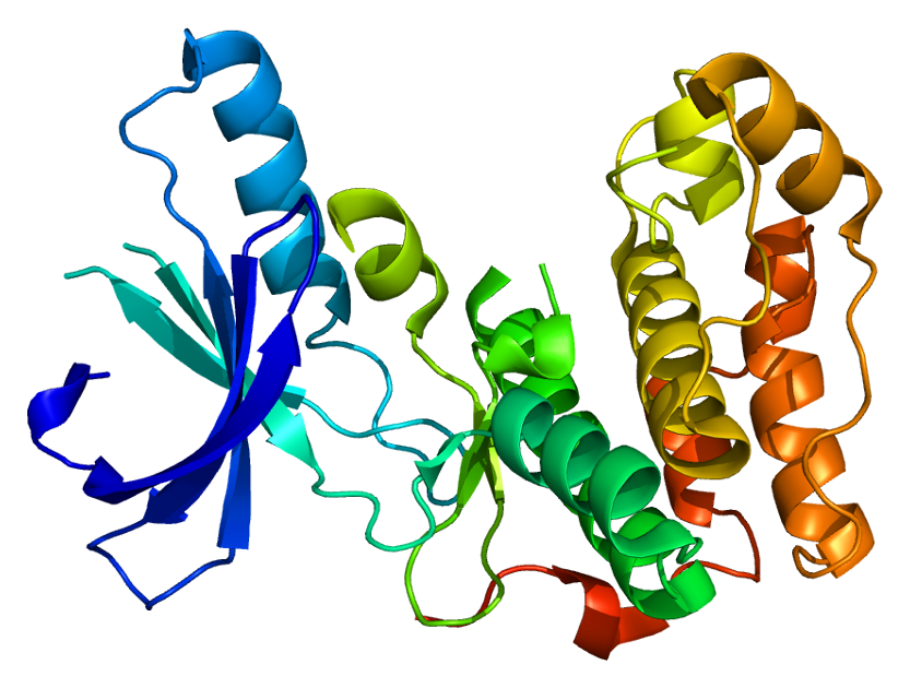 Structure of the NEK2 protein. Based on PyMOL rendering of PDB 2jav.